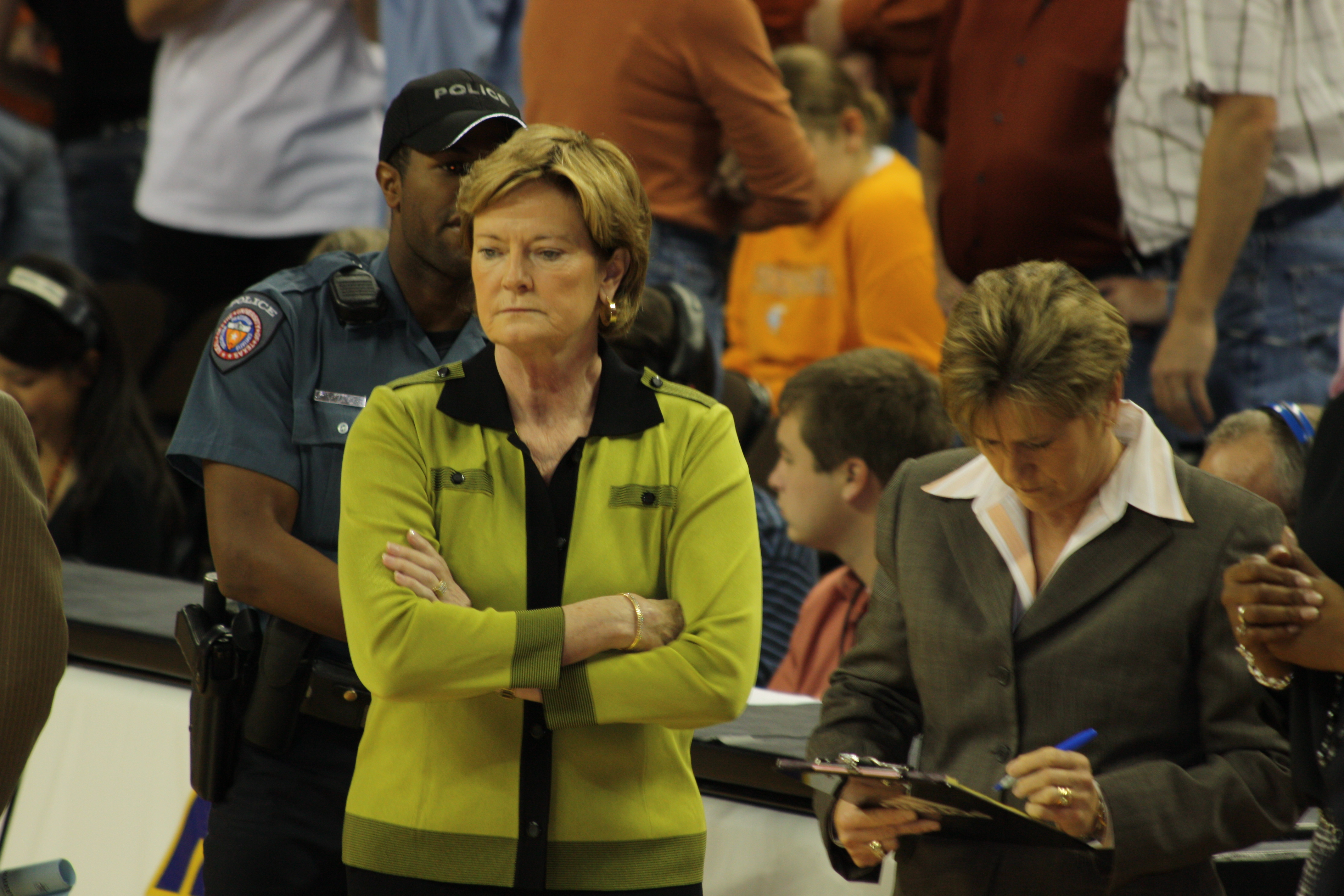 Tennessee Volunteers head women's basketball caoch Pat Summitt at the game against Texas on December 14, 2008.